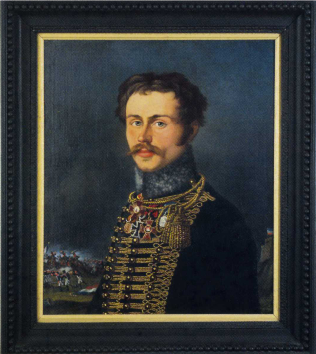 Baron Wilhelm Johann Ludwig von der Horst (1786-1874)